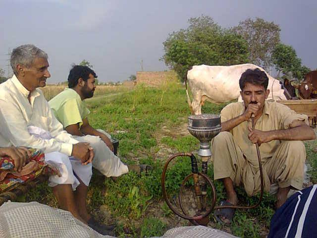 Local residents are sitting in the fields along their cattles